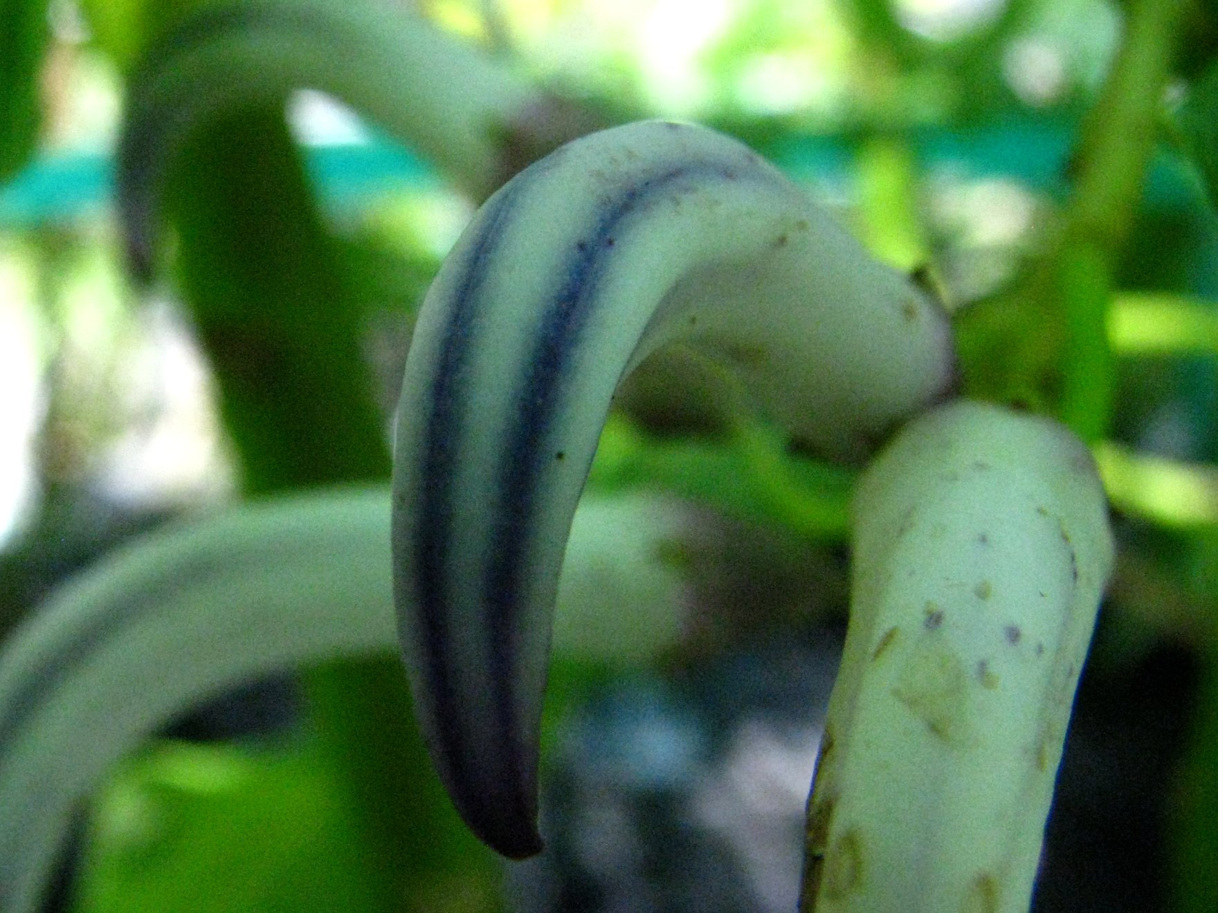 Hāhā or Plateau cyanea Campanulaceae Endemic to the Hawaiian Islands (Kauaʻi only) Very rare and endangered Kauaʻi (Cultivated) Unopened flowers.